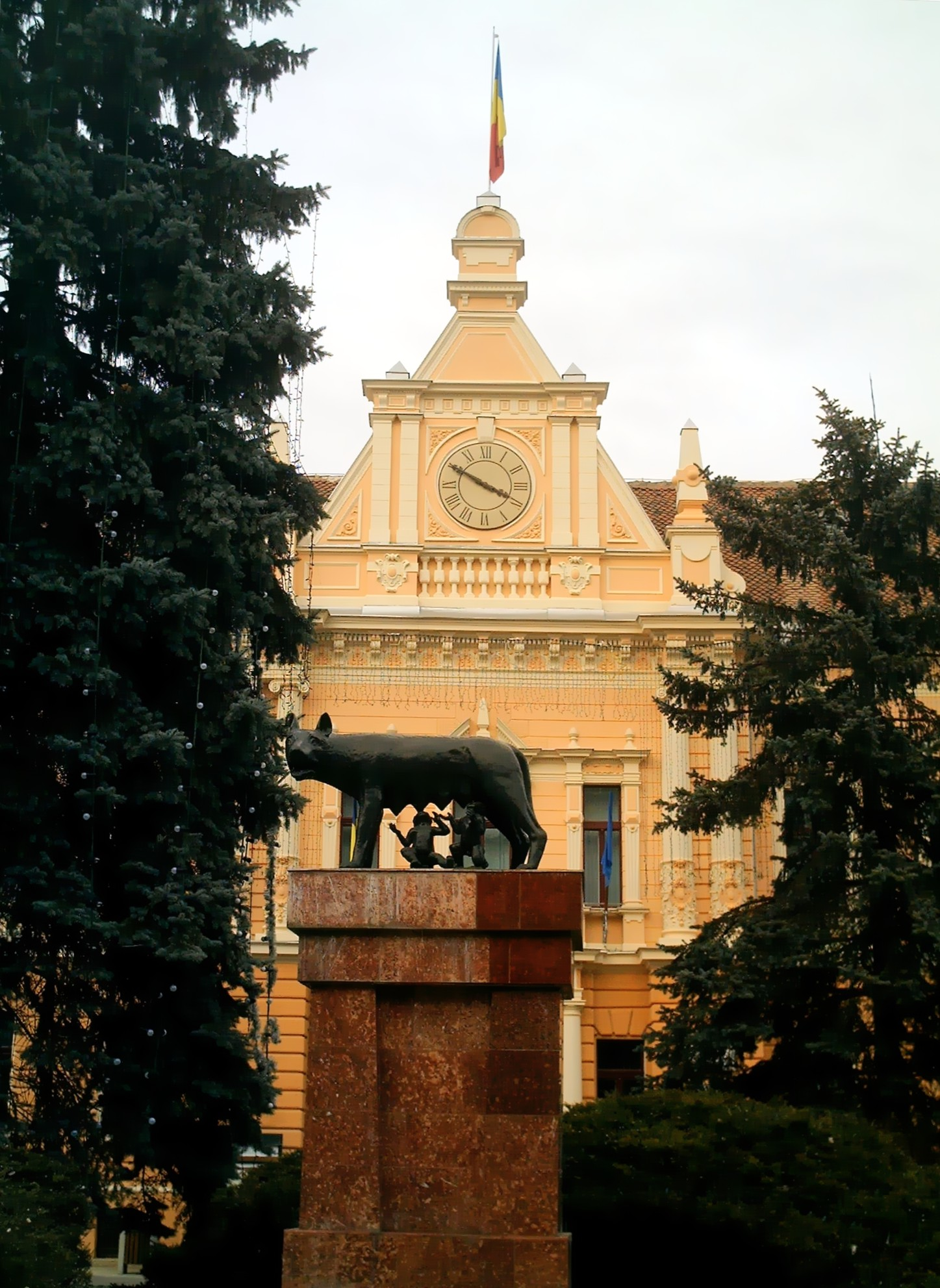 Lupa Capitolina. Behind it's the Financial Palace (today the mayory of Braşov).